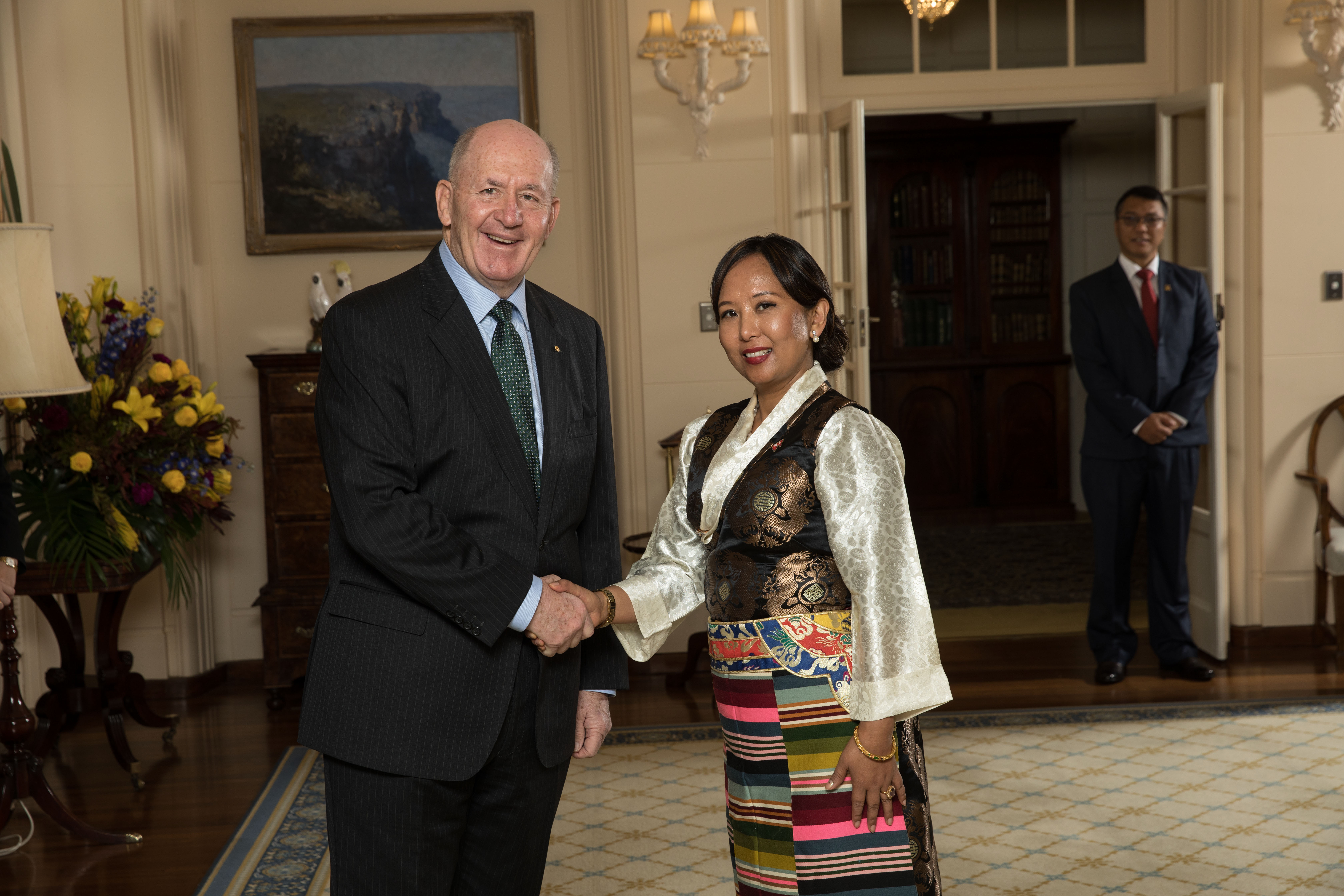 Ms. Lucky Sherpa is the first indigenous women to be appointed as an Ambassador from the Government of Nepal was a former elected member of the Constituent Assembly and Parliament of Nepal (from 2008 to 2012). Ms. Sherpa is also first among her (Sherpa) community to reach the politburo level (MC) in the party politics of Nepal. While in Parliament Ms. Sherpa was a legislative member of International relations and human right committee under Legislative Parliament. Her passions for economic empowerment, biological diversity, the environment and human rights have brought her to play leading roles in many national as well as international organizations. Ms. Sherpa has led the Parliamentarians Network on the Environment that is GLOBE Nepal, a member organization of Globe International. She is also an International Steering Committee member of the Climate Vulnerable Countries network. She has been an advisor of many national as well as international networks and organizations dedicated to promote green development, inclusive democracy, human rights and the rule of law. She has received many awards from a variety of national and international organizations. Ms. Sherpa was honored with the recognition of ‘Youth Ambassador for Peace’ for 2007 and ‘Young Women Human Rights Leader’ by the World Youth Federation for Peace, Korea and MADRE, an International Women’s Human Rights Organization, USA, respectively. She was also the first female graduate from the indigenous Sherpa community to hold a Master’s Degree in Economics and was the faculty’s top student for 2001 from Patan Campus of Tribhuvan University. Ms Sherpa has participated in many international trainings provided by ILO, UNDP and a very recent program at Harvard University on Political Leadership organized by the US Embassy in Nepal and the Karuna Center for Peace Building in Washington D.C. Ms. Sherpa have visited almost most part of the world delivering and sharing her knowledge.